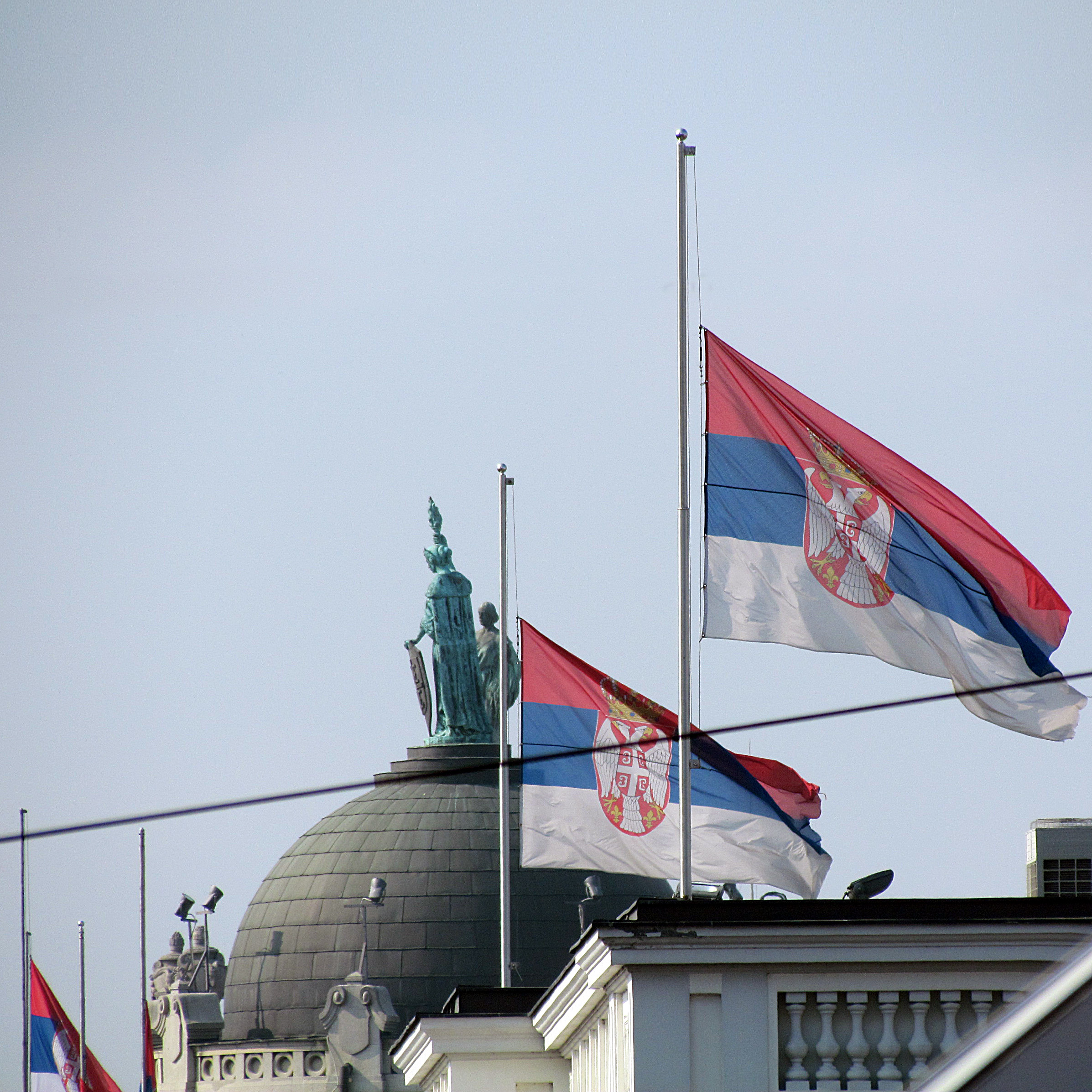 National day of mourning in Serbia